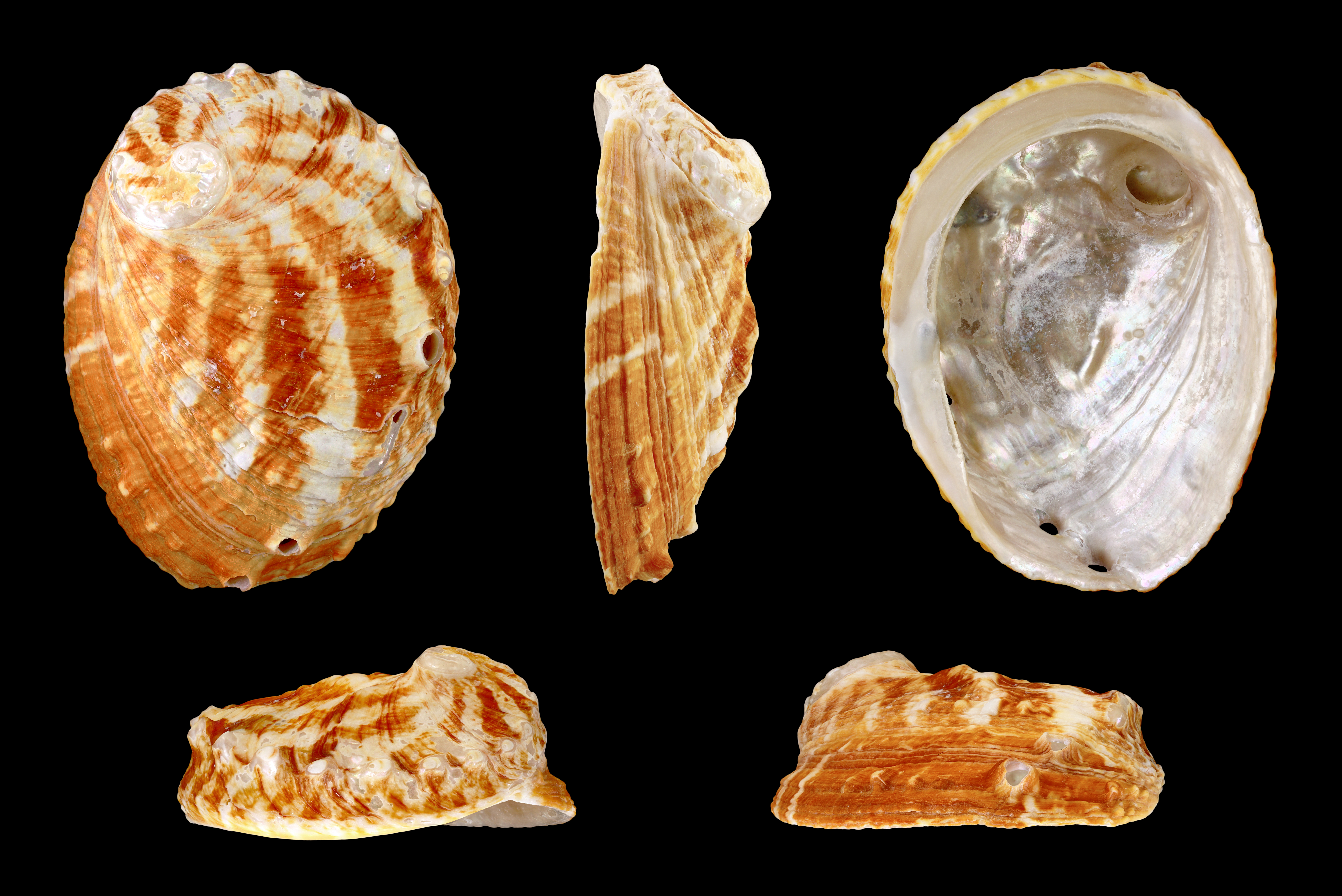 Haliotis ovina volcanicus Patamakanthin & Eng, 2002; Length 5.5 cm; Originating from Indonesia; Shell of own collection, therefore not geocoded. Dorsal, lateral (right side), ventral, back, and front view.